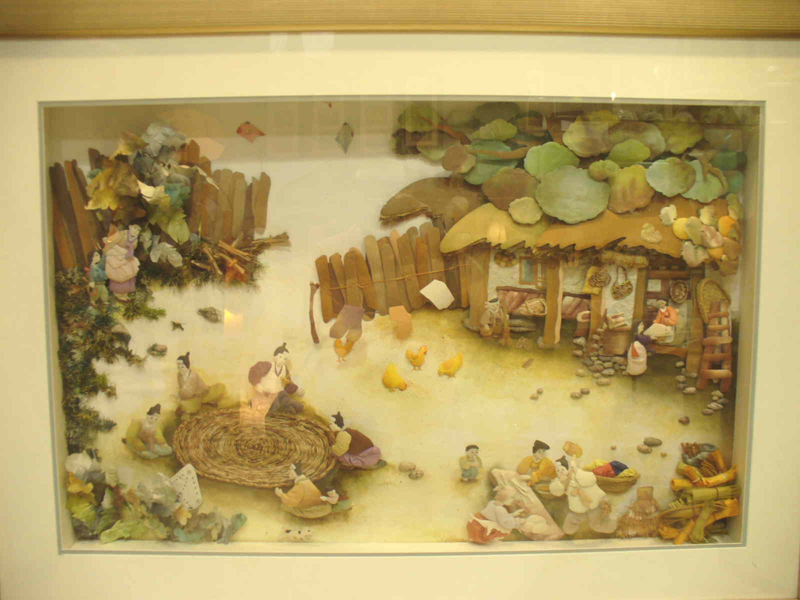 Hanji, Korean paper, A piece of Hanji artwork, photo courtesy of Edirleine Fragoso Trefflich